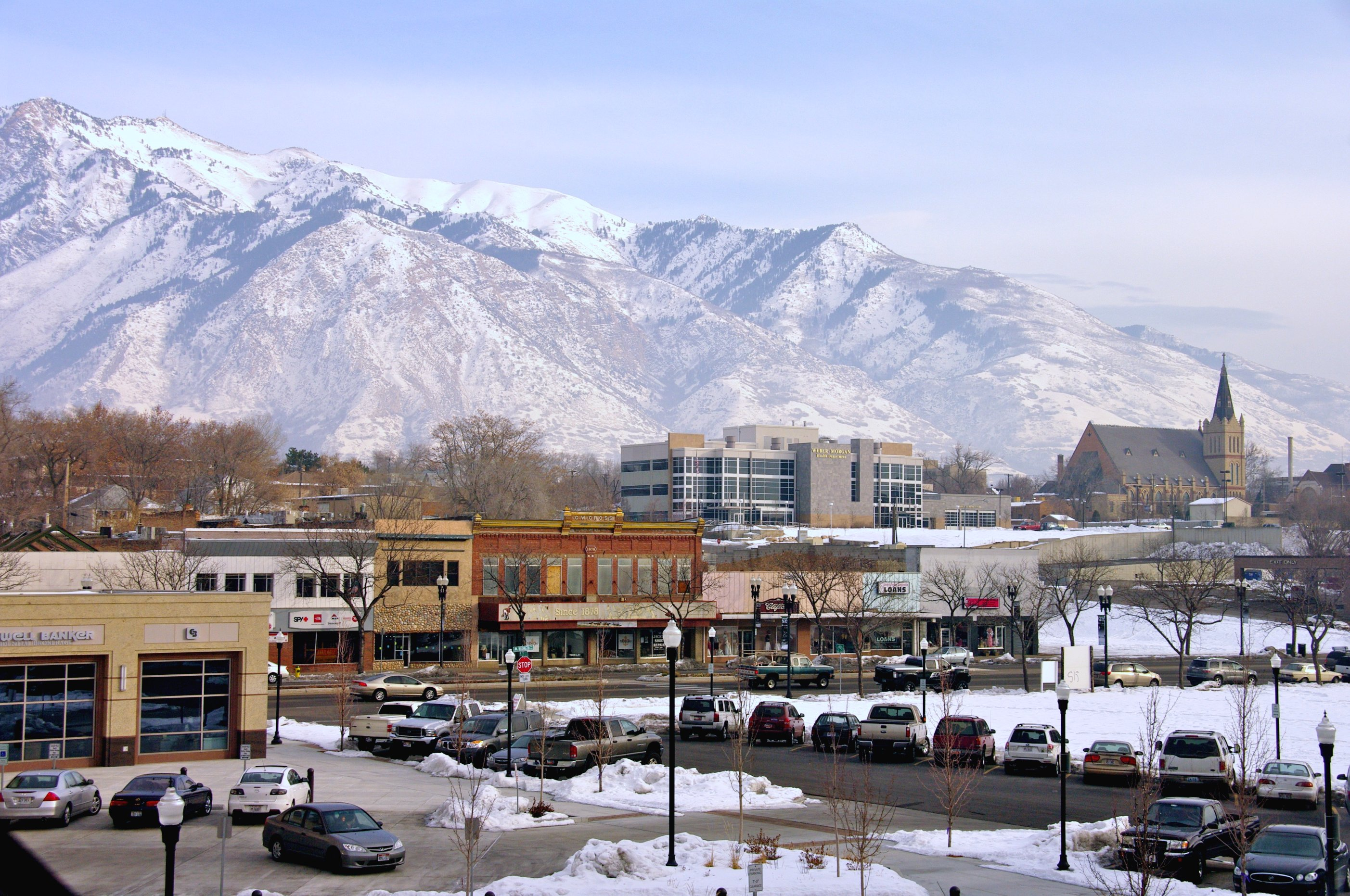 View from Treehouse children's museum.